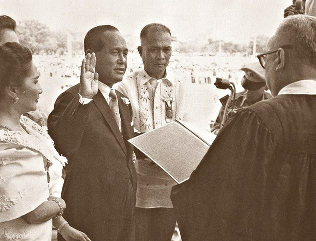 President Carlos P Garcia swears in as the 8th President of the Philippines after winning the elections of 1957.